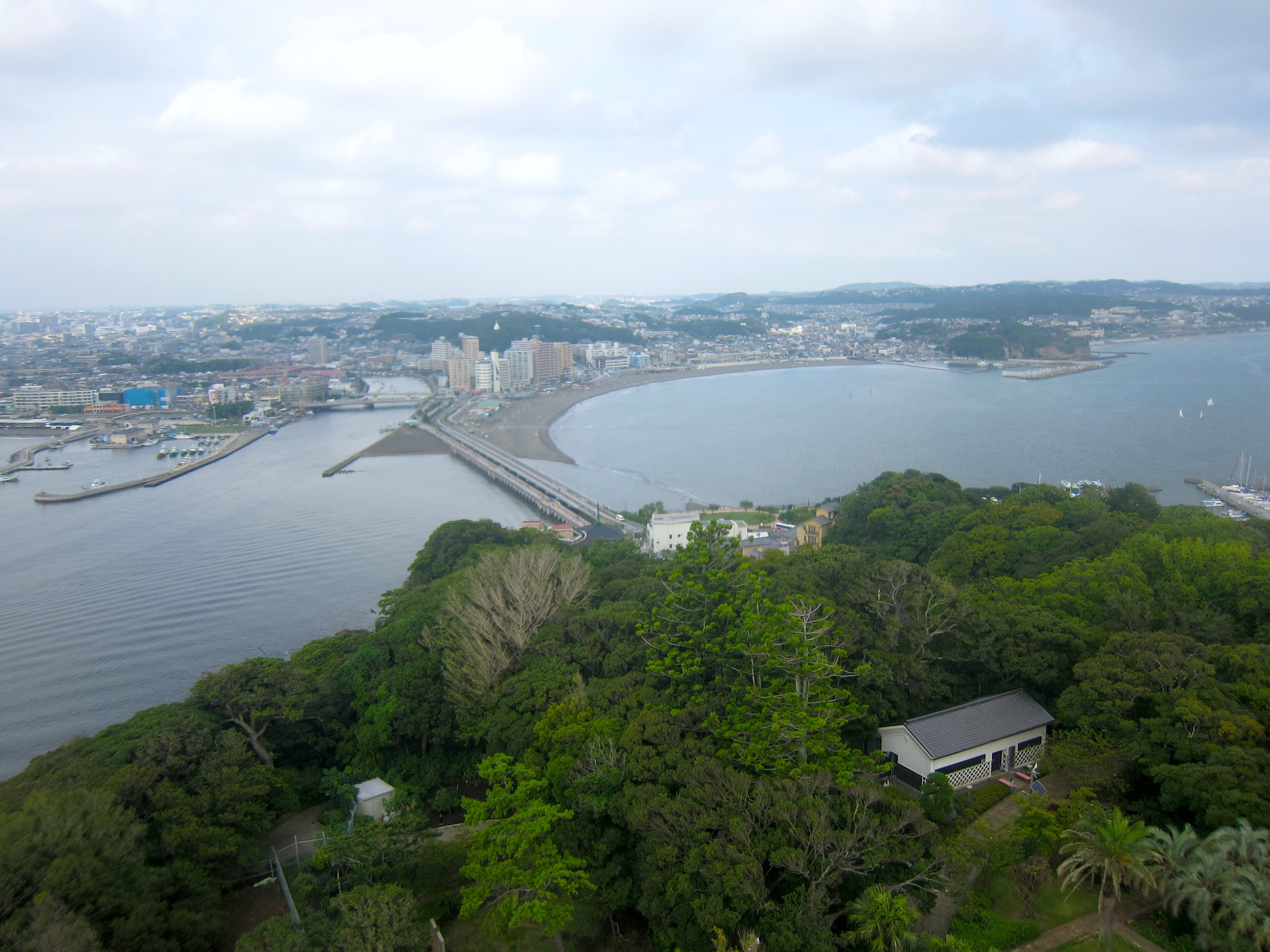 Looking towards Fujisawa from Enoshima